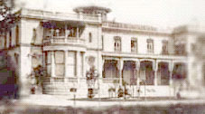 Hotel development during 1857/58